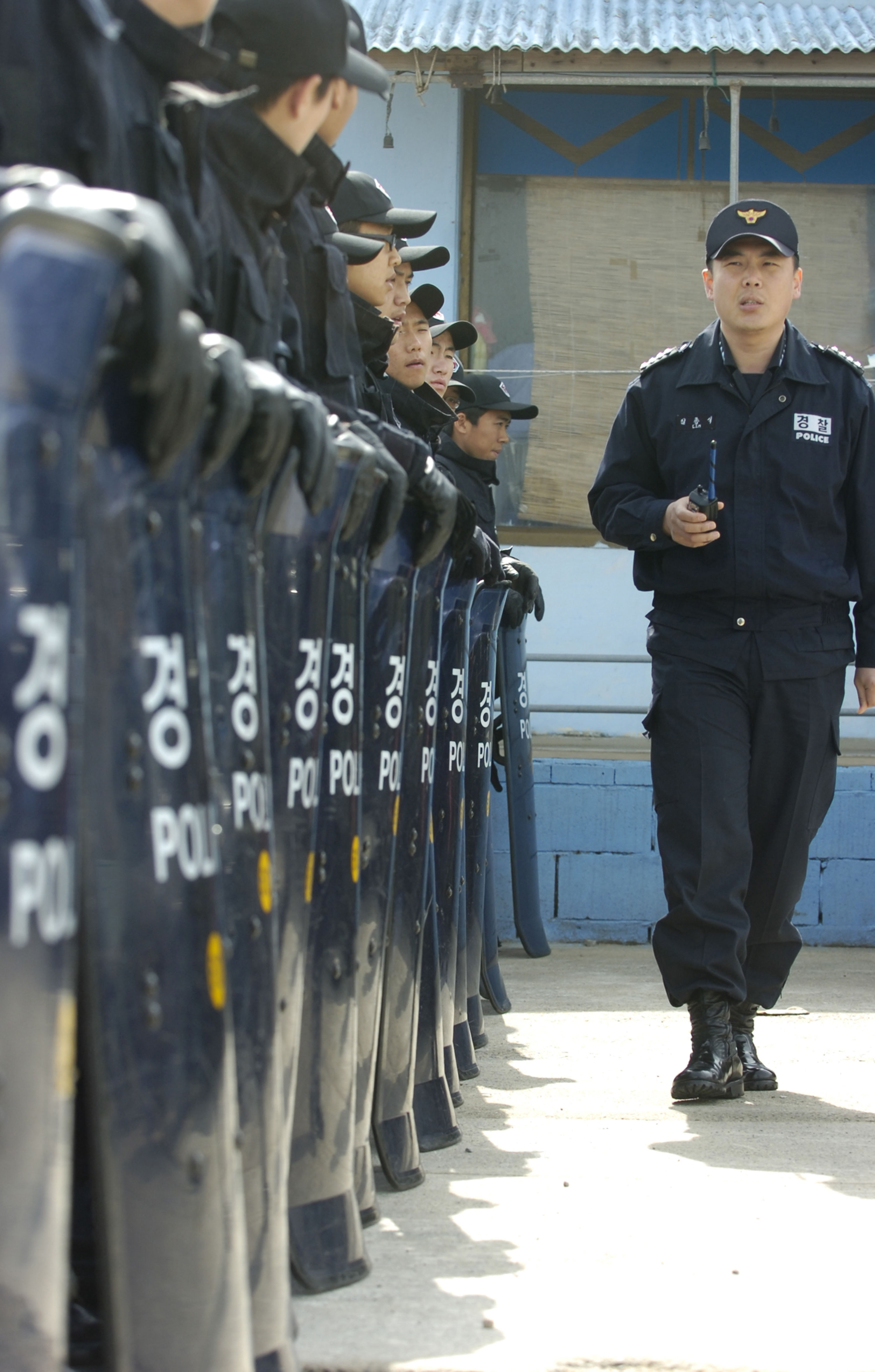 Korean National Police get in formation with protective shields to create a barrier between a joint/combined amphibious beach assault exercise and protester March 29, 2007, during exercise Reception, Staging, Onward movement, and Integration / Foal Eagle 2007 in South Korea. (U.S. Navy photo by Mass Communication Specialist 1st Class Daniel N. Woods) (Released)